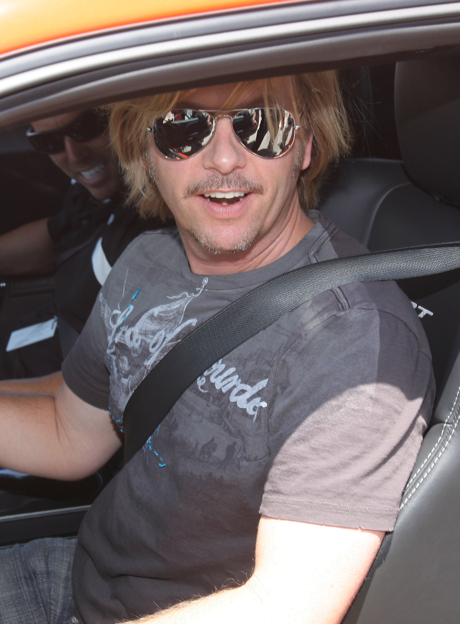 David Spade in the All-New Challenger